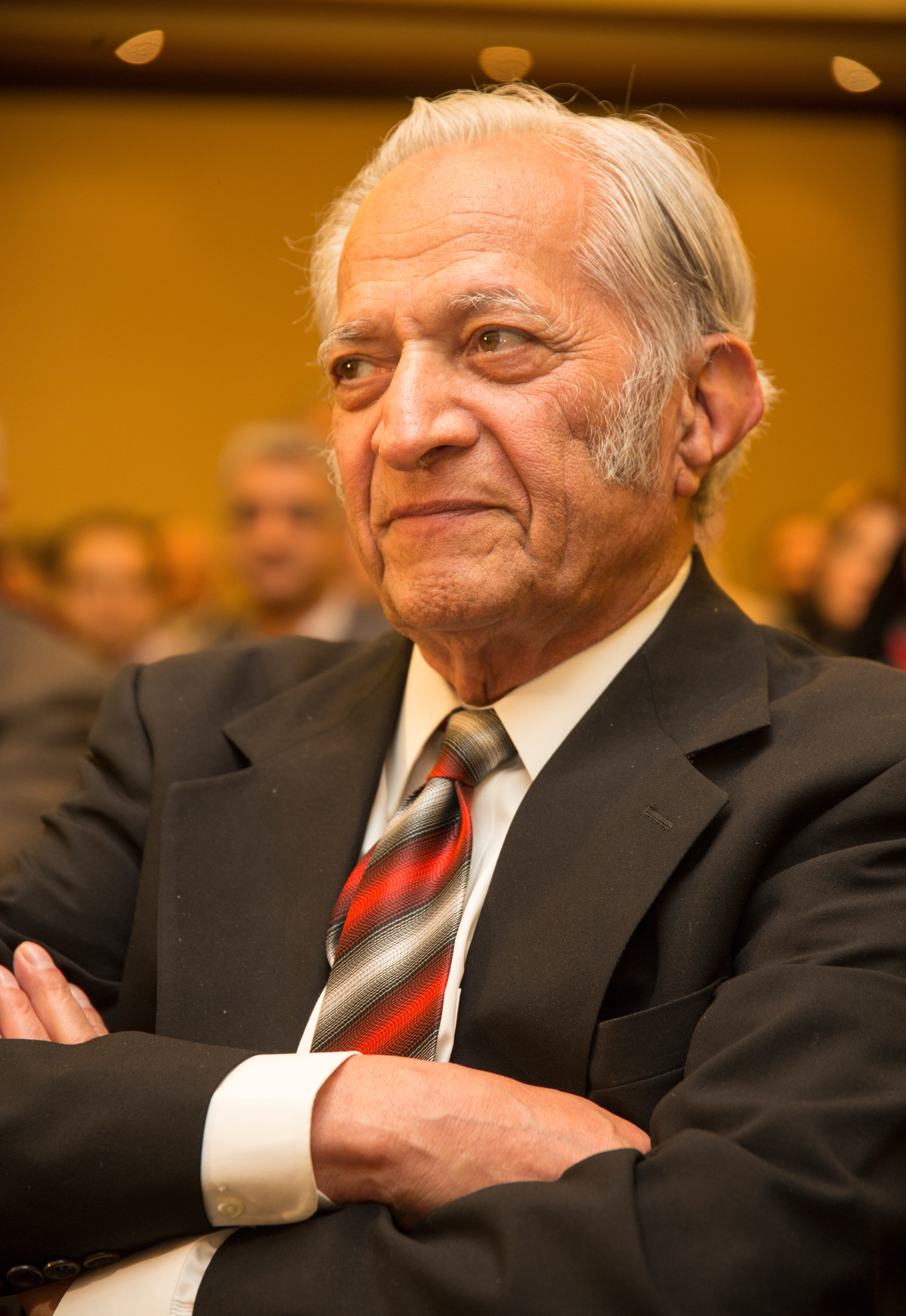 Dr.khodadoust